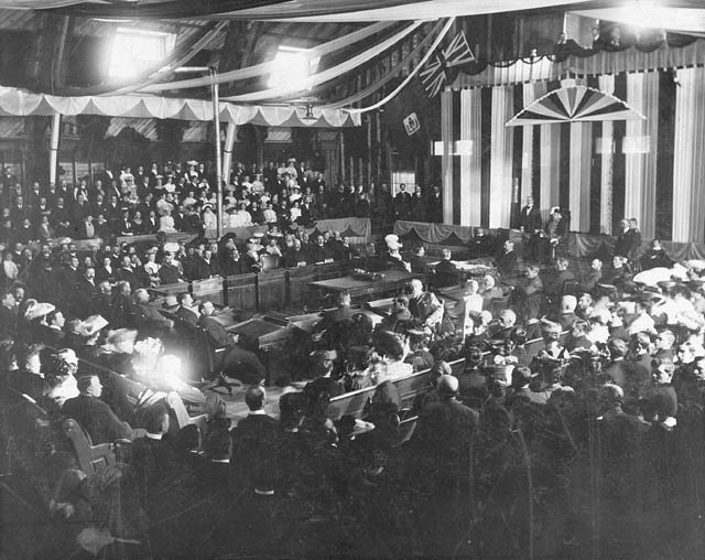 Opening of Alberta's first Legislature, Edmonton, March 15, 1906 Credit: Cassel M. Tait/Library and Archives Canada/PA-029112